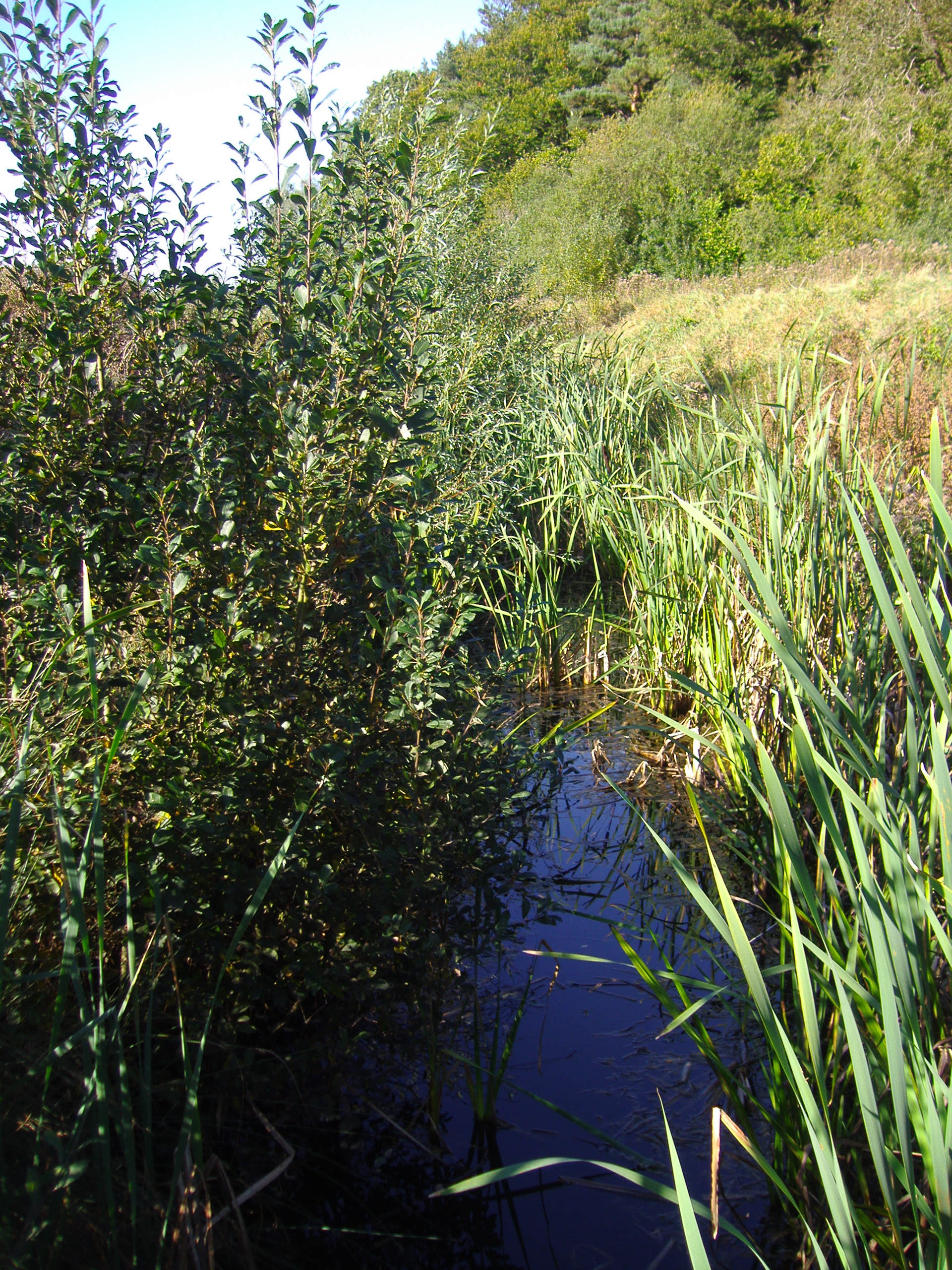 A Digital Phot of the River Cog Close to the A148 Road where it cross. taken on the 4th October 2007